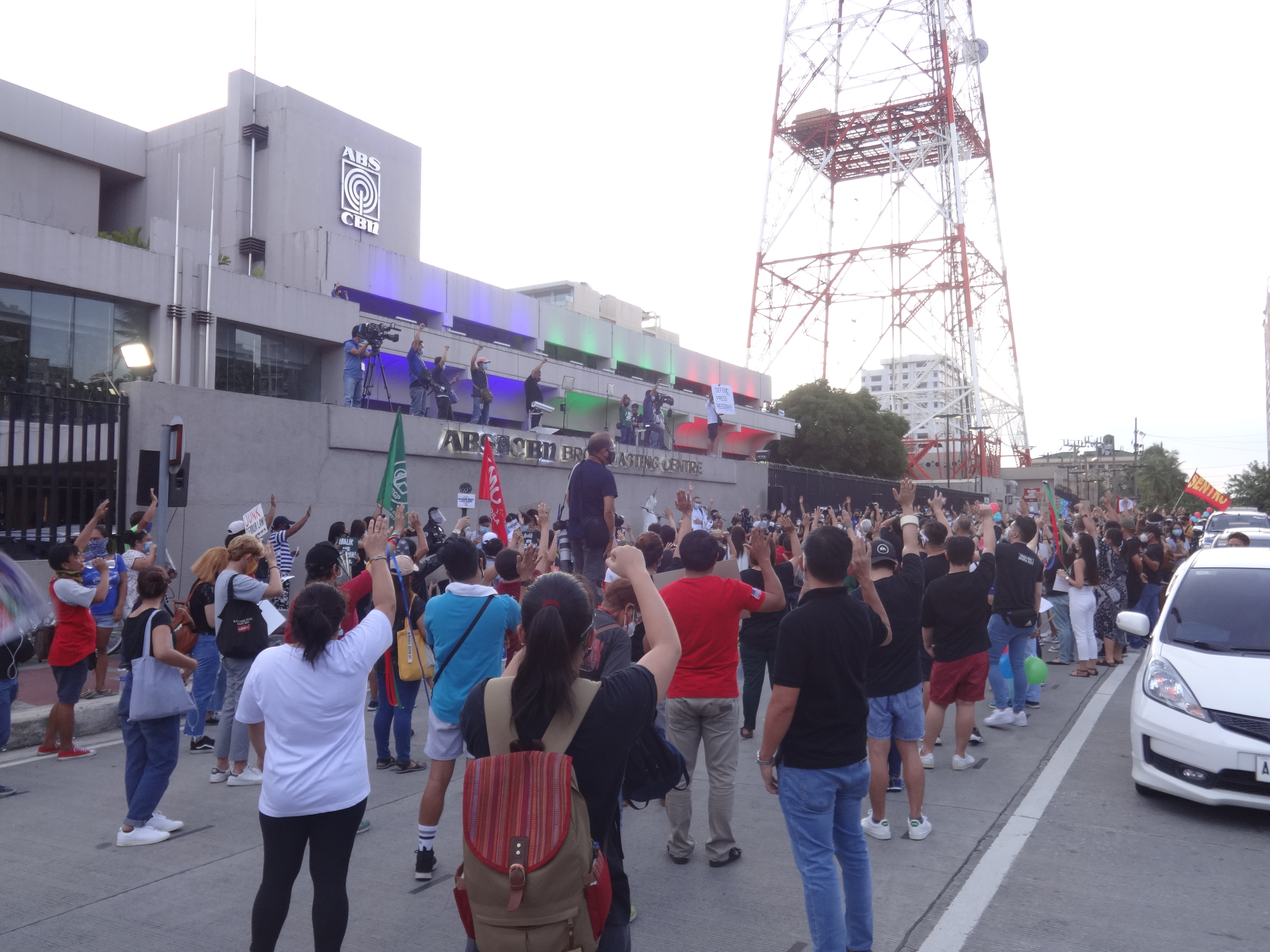 Activists from different groups held a protest and noise barrage vs ABS-CBN's franchise denial outside the network's headquarters in Quezon City